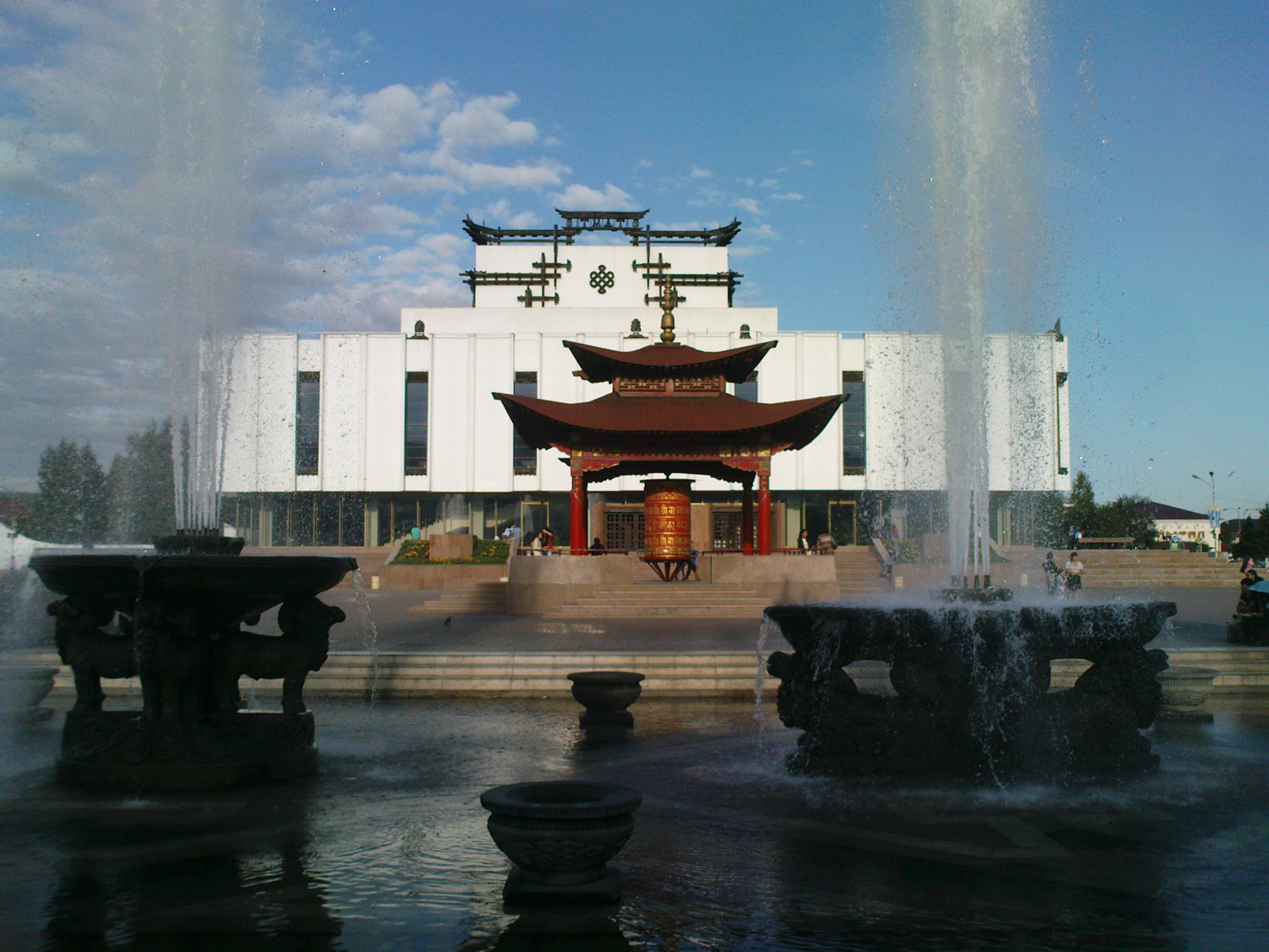 National theatre in Kyzyl, capital of Tuva, Siberia